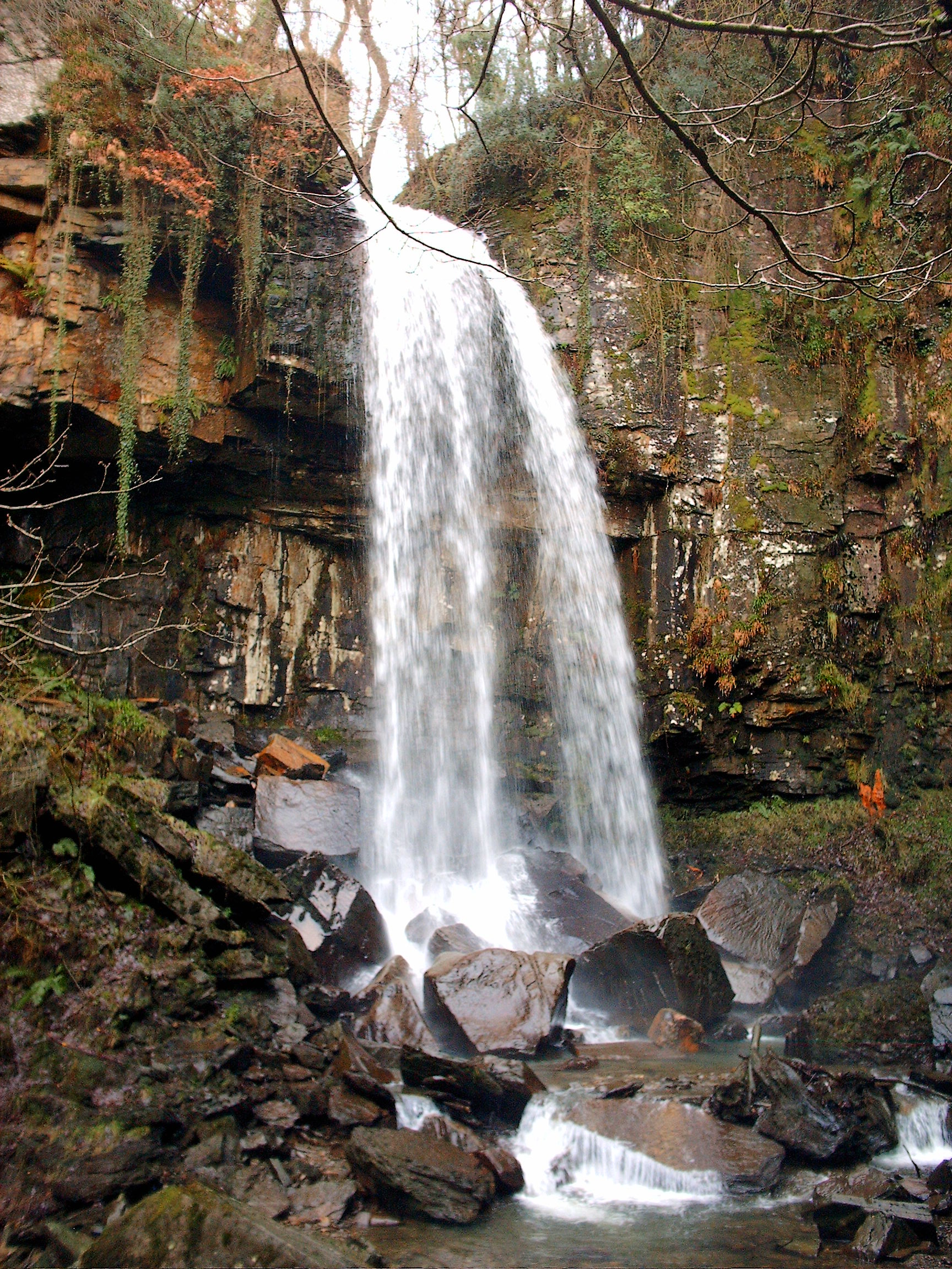 Depicted place: Melincourt Falls